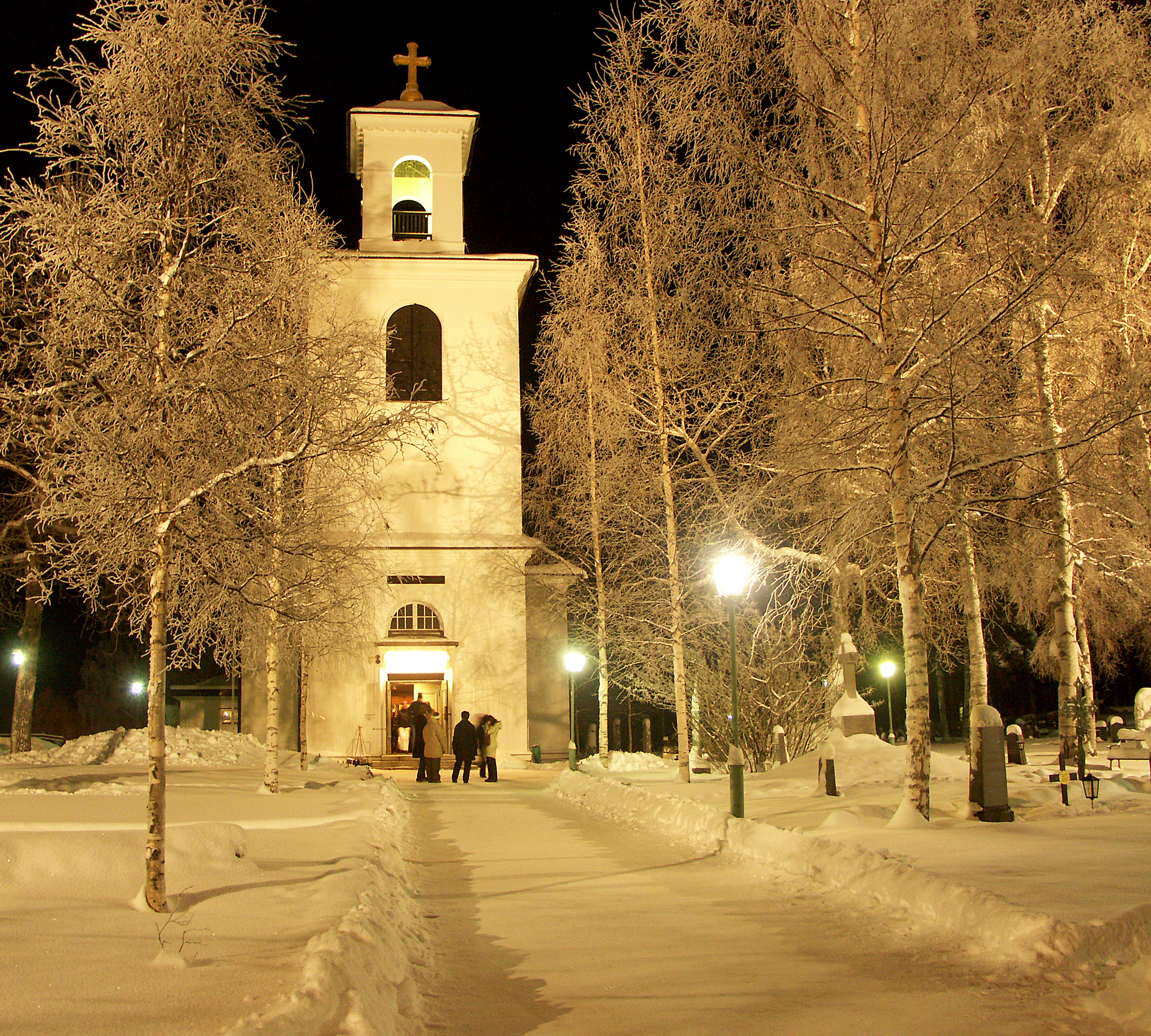 Lycksele Church, diocese of Luleå, Church of Sweden.